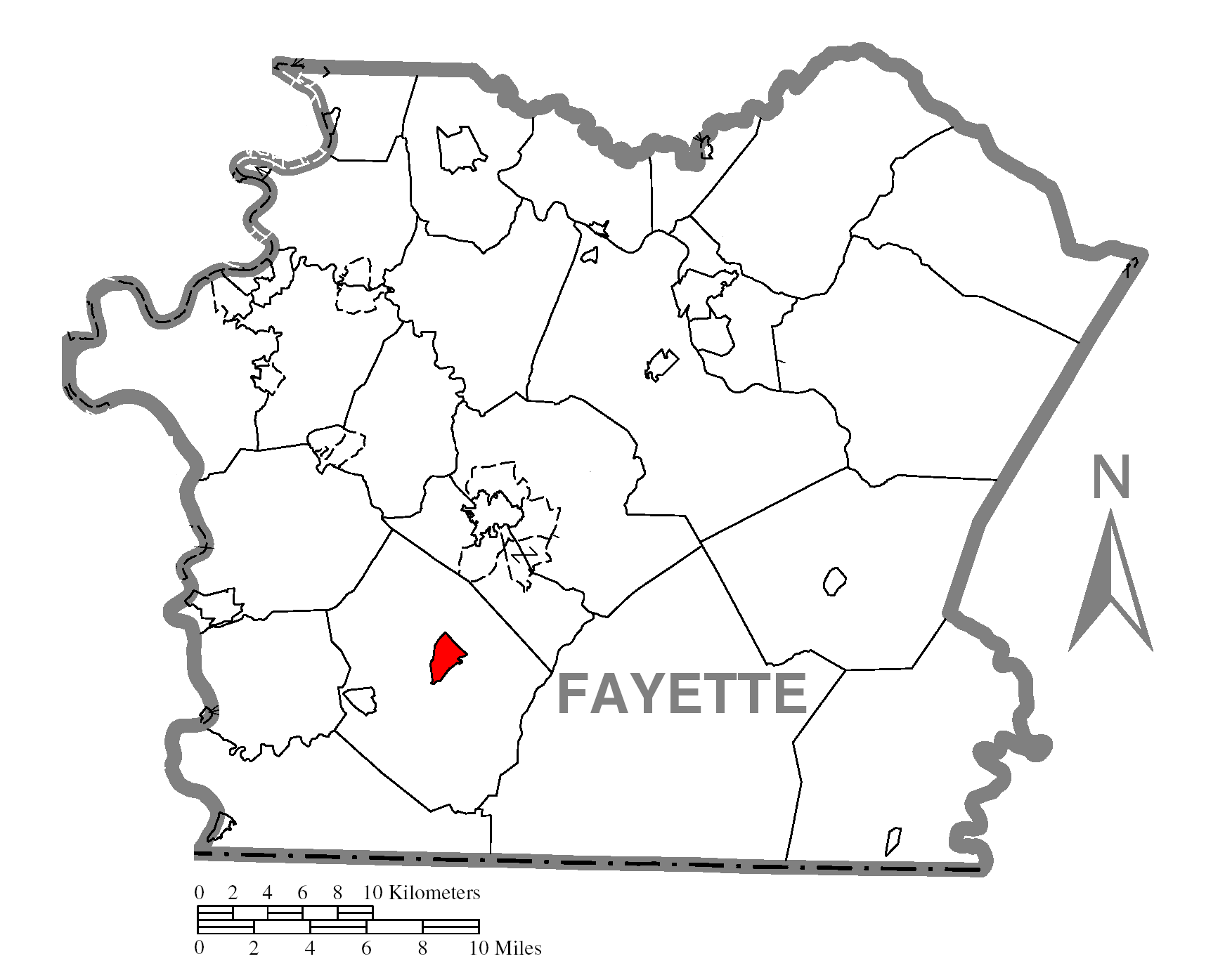 Map of Fayette County higlighting Fairchance.